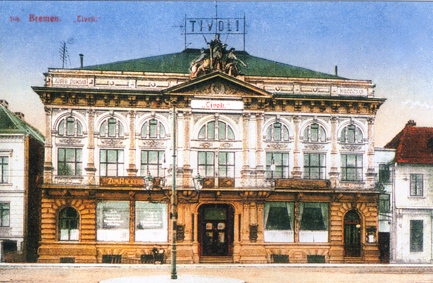 Old postcard of the Tivoli-Theater in Bremen, Germany, built 1892, destroyed in the Second World War.